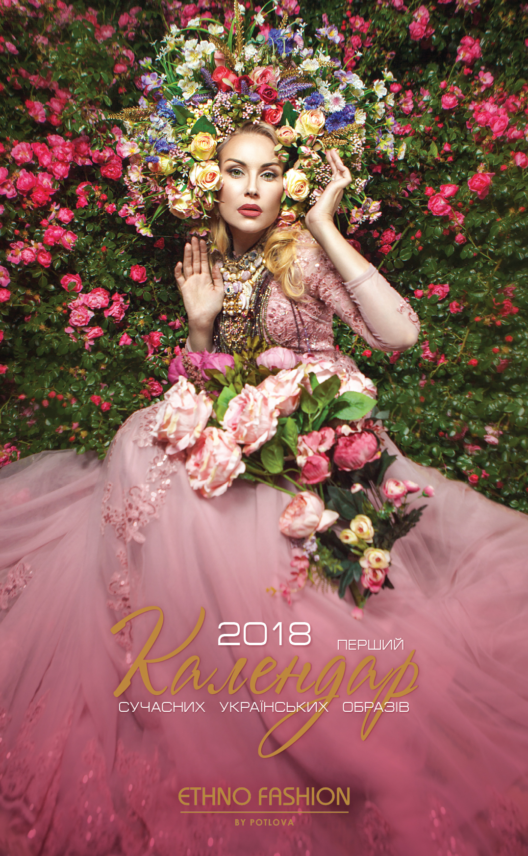 Cover of the 2018 project calendar ("Ethno Fashion by Potlova")